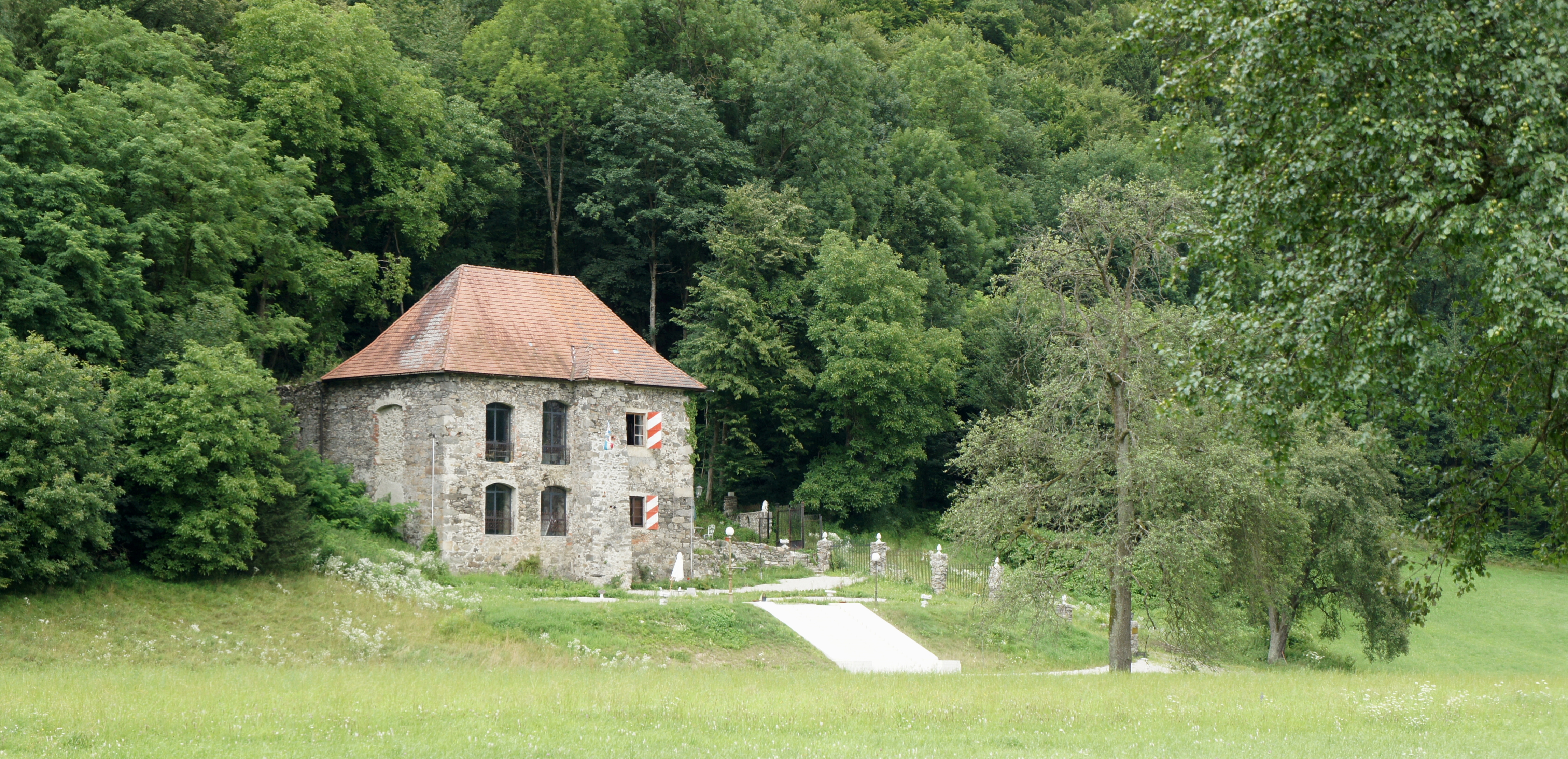 Ruine Freizell